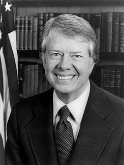 Jimmy Carter, former President of the United States